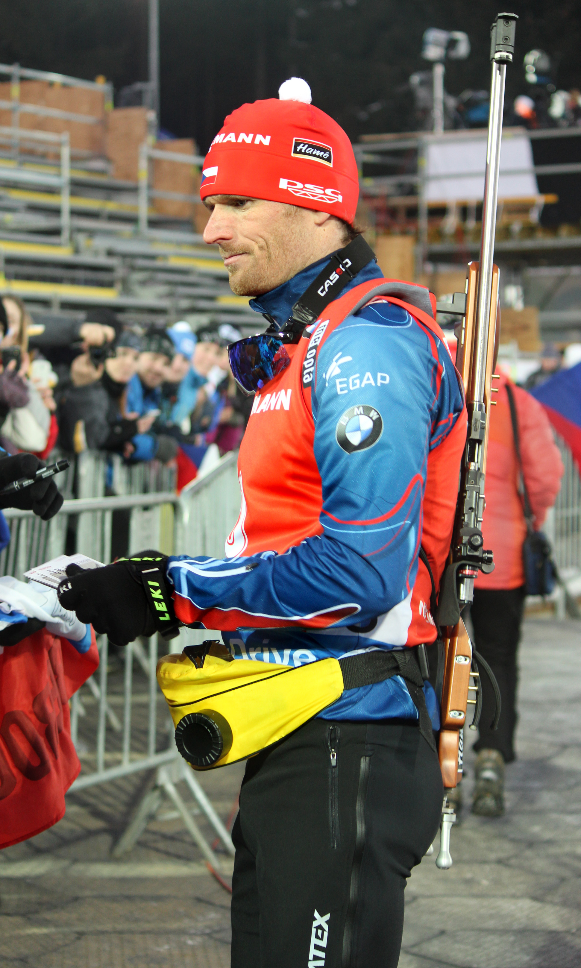 Michal Šlesingr at Biathlon World Cup 2015 in Nové Město, Czech Republic – sprint men